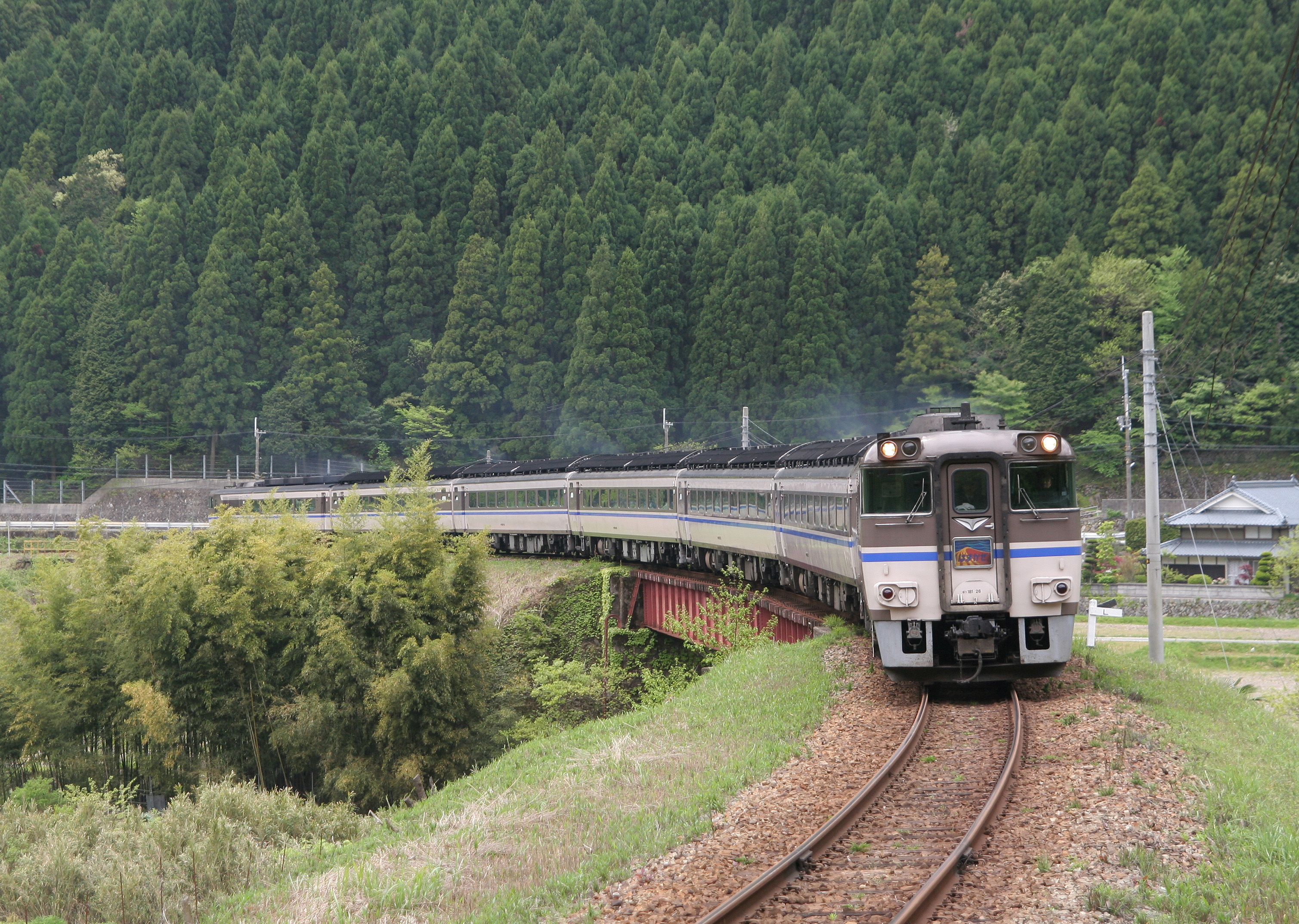 West Japan Railway DC kiha181 Ikuno pass